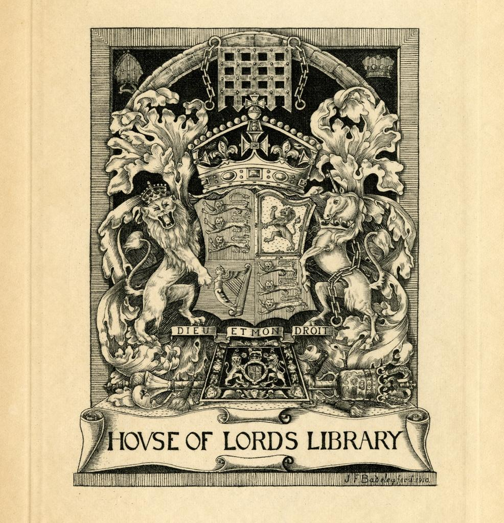 Armorial/Heraldic Bookplates. Subject: Coat of arms; Shields; Animals; Crowns. Subject - Corporate Name: House of Lords Library.